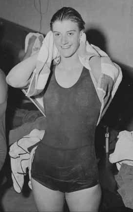 Womens 100 Freestyle Heat 4 Faith Leech (Australia) winner